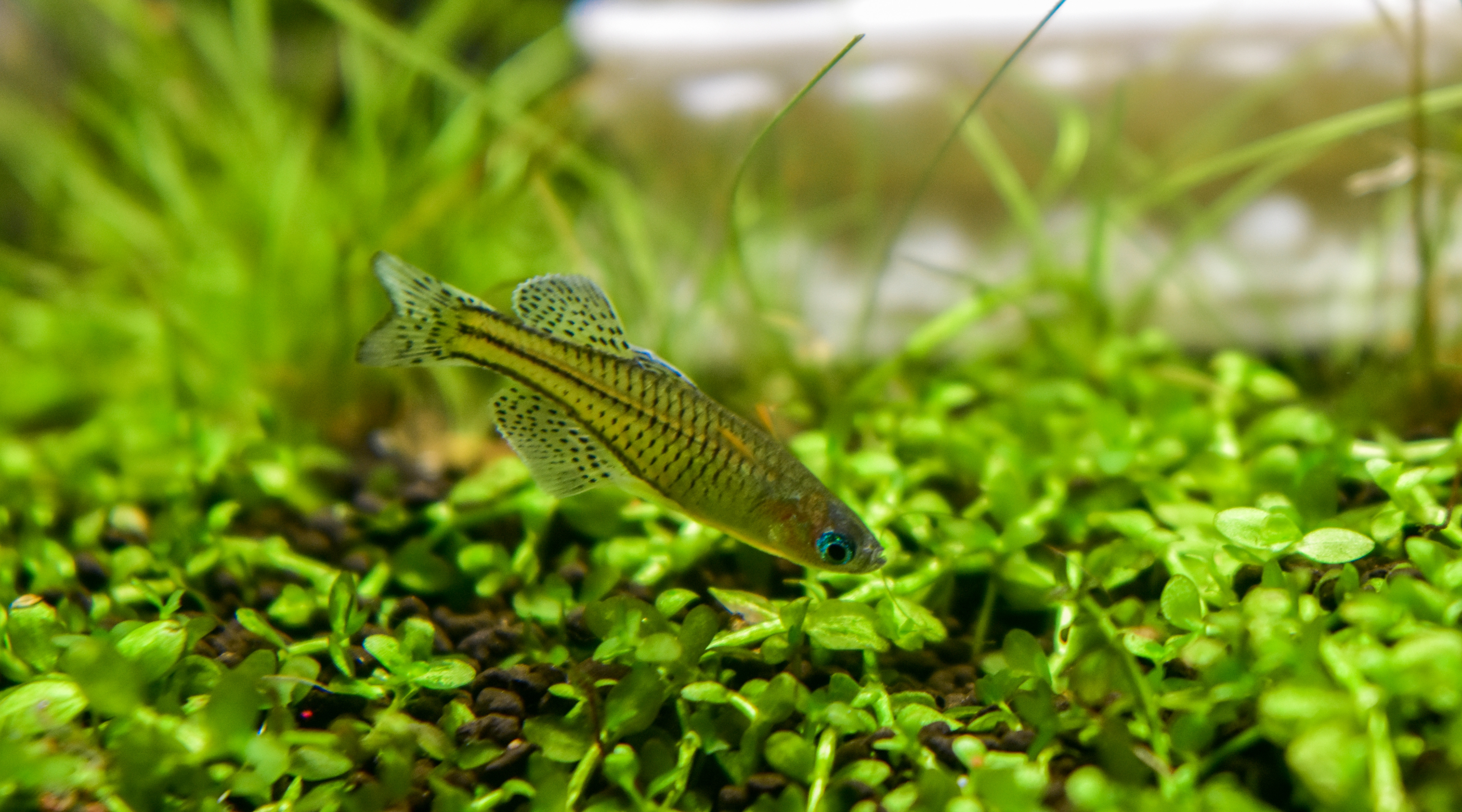 A Pseudomugil gertrudae also known as Spotted blue-eye rainbow fish searching for food.